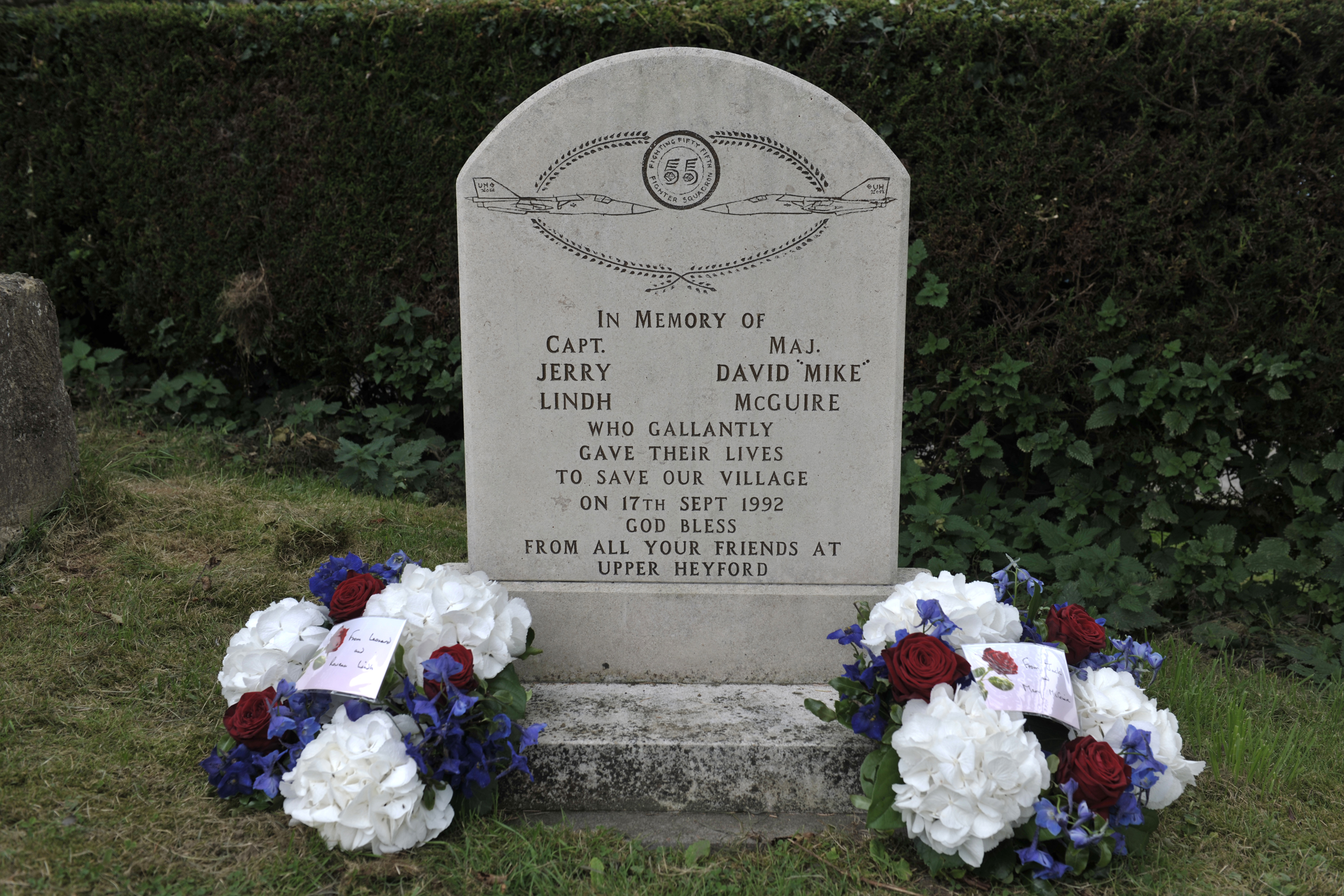 Monument in Upper Heyford cemetery, Oxfordshire, England. The village held an act of commemoration for Capt. Jerry Lindh, 55th Fighter Squadron F-111E pilot, and Maj. David “Mike” McGuire, 55th FS F-111E navigator, who died September 17, 1992, when they chose to fly their crippled F-111E away from the villages of Upper Heyford and North Aston instead of ejecting.